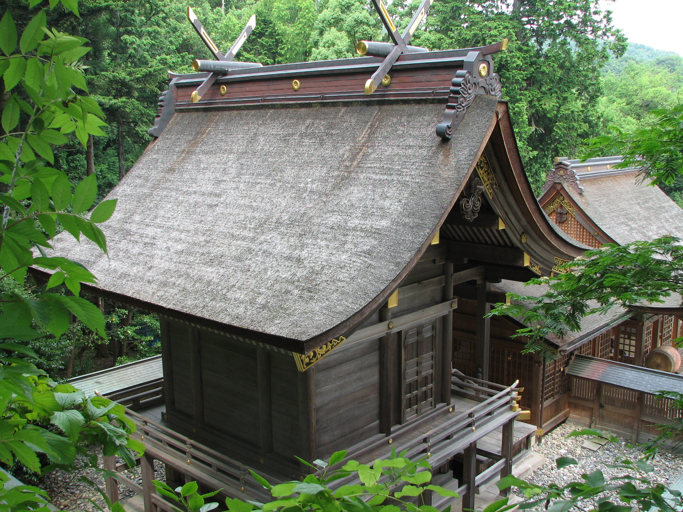 The honden of Ube Shrine, Tottori, Tottori, Japan 宇倍神社（鳥取県鳥取市）本殿